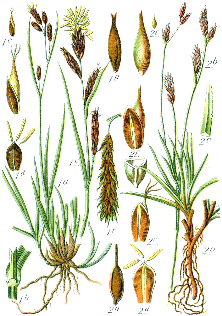 1. Carex frigida All. 2. Carex firma Host Original Caption 1. Frost-Segge, Carex frigida 2. Feste Segge, C. firma